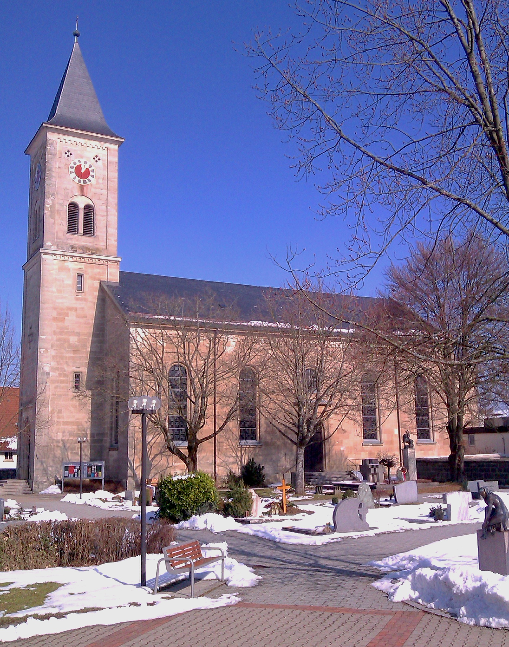 St. George’s church, Mutlangen, view from the south